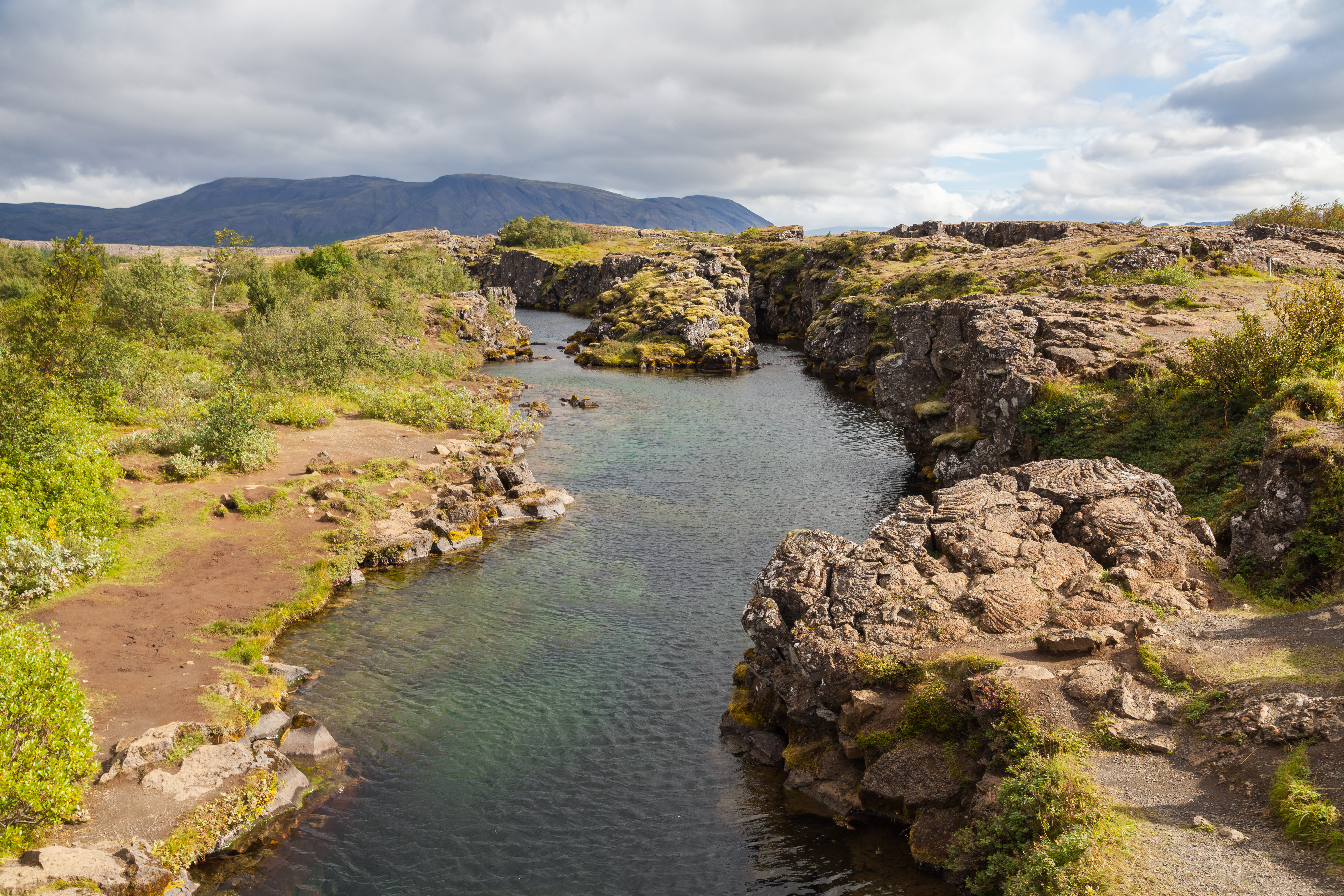 Flosagja canyon, Þingvellir National Park, Suðurland, Iceland